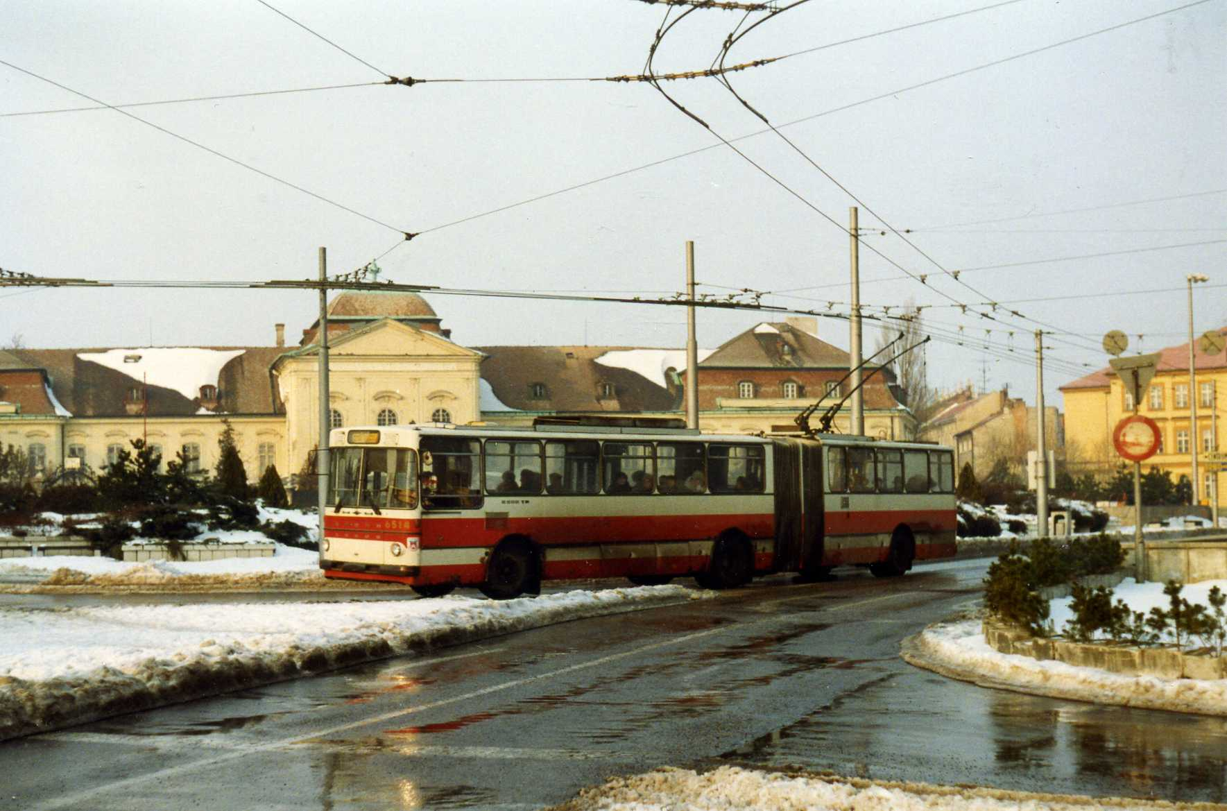 One of the rare and much missed Macedonian bodied Sanos trolleybuses which were bought by Zlín and Bratislava to work alongside the more usual Skoda 9Tr and 14/15Tr units. 6514 was new in December 1985 and withdrawn in 1999. Bratislava operated 20 of these Skoda Sanos S200Tr vehicles numbered 6501-20. 6504 and 6517 are retained as historic trolleybuses.